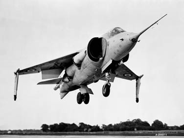 This picture may have usage restrictions